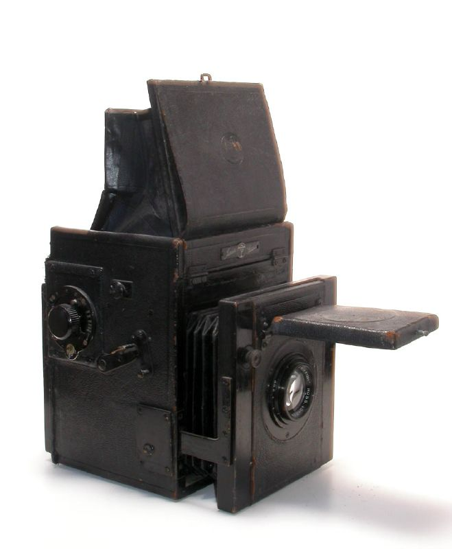 Thornton-Pickard 1920's 6x9cm 'Junior Special', fitted with f4.5 Ross Xpress. Focal plane shutter to 1/1000 sec.